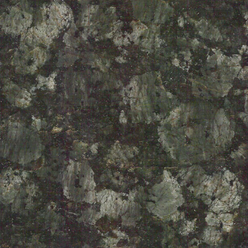 Tirilite